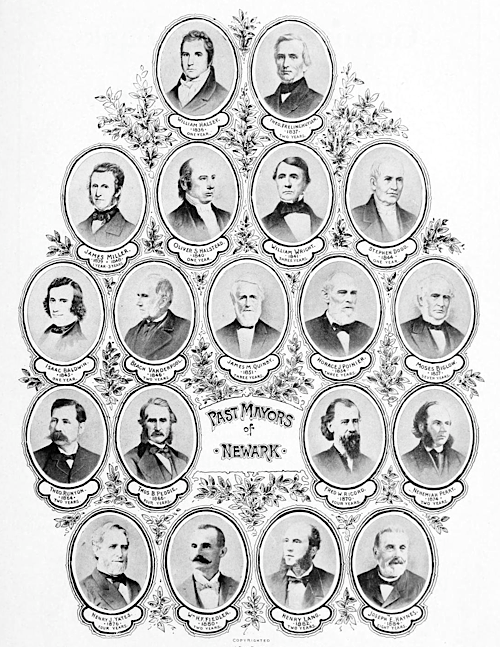 Past mayors of Newark, New Jersey USA